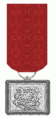 Medal of the Sultan of Zanzibar 1875